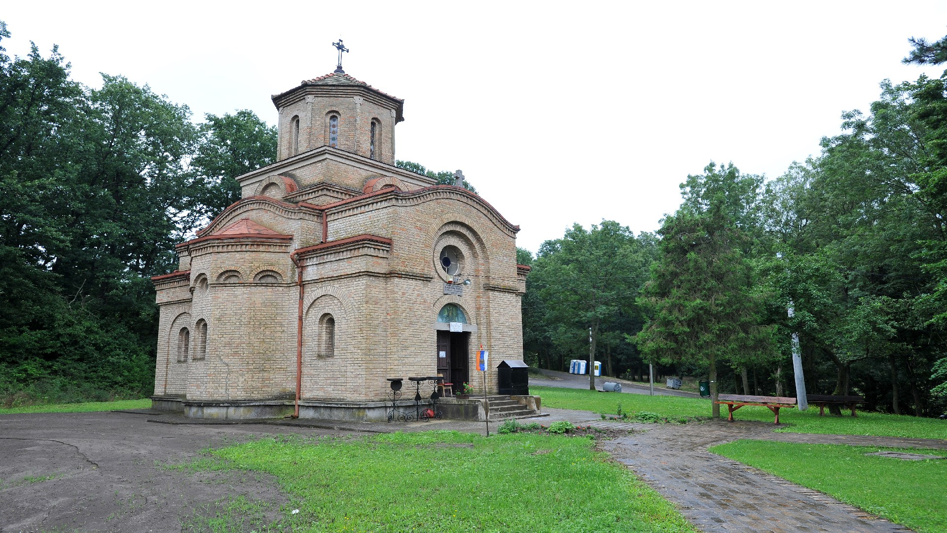 Church of Saint Archangel Gabriel or Zahvalnica Church in Radovanjski lug